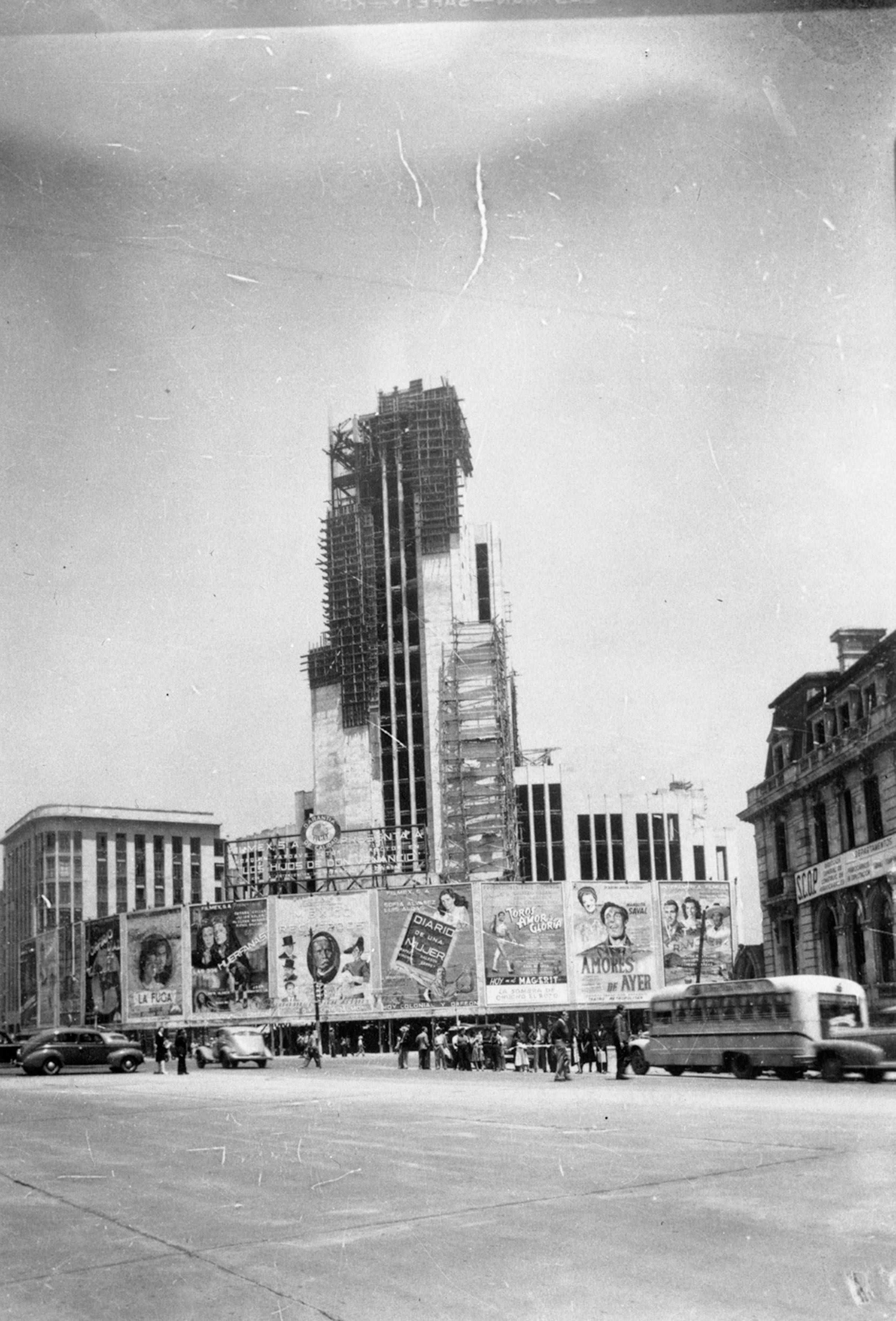 Building of "El Moro" building.